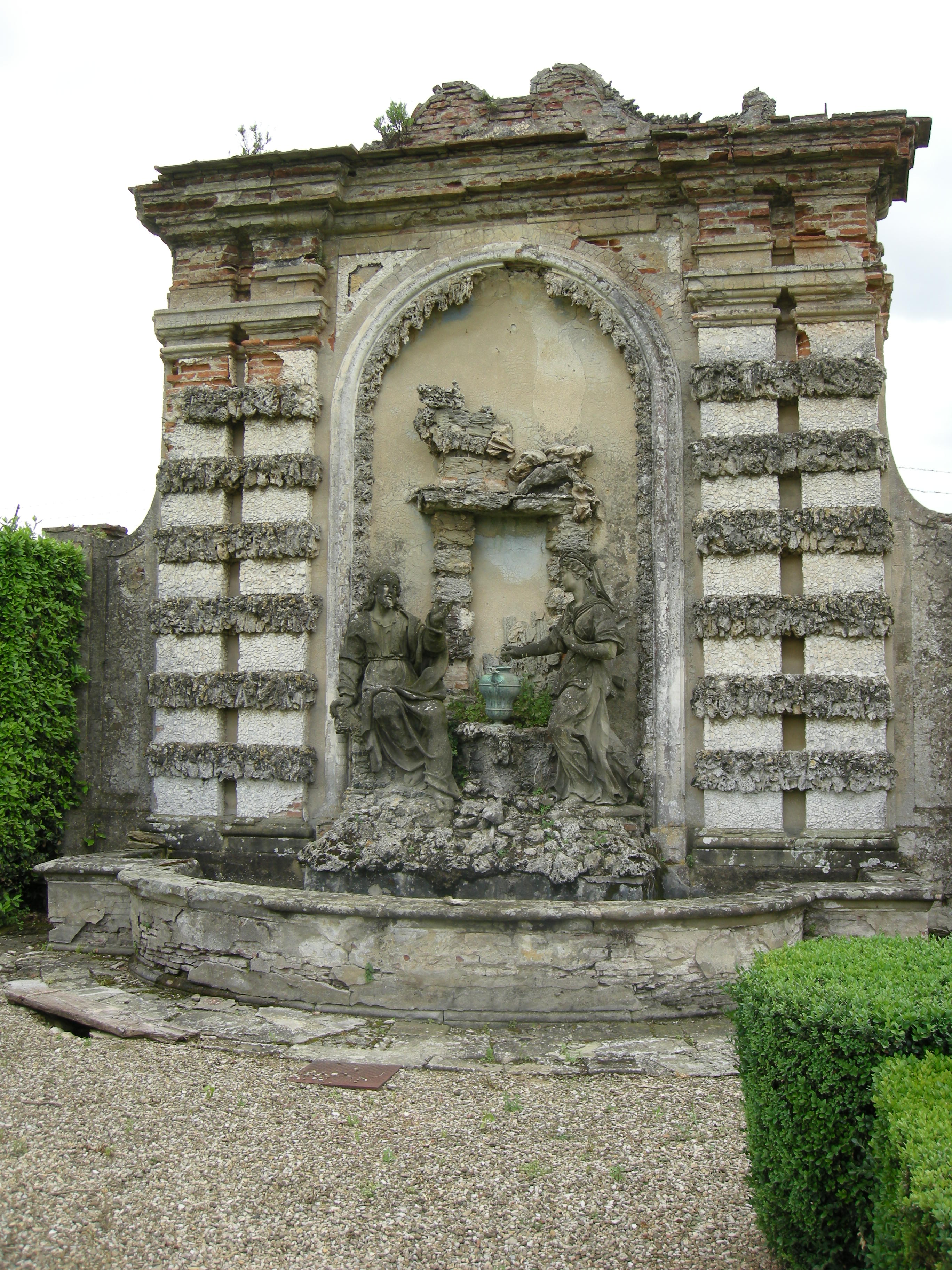 Wall — Gardens of Villa La Quiete - Florence.